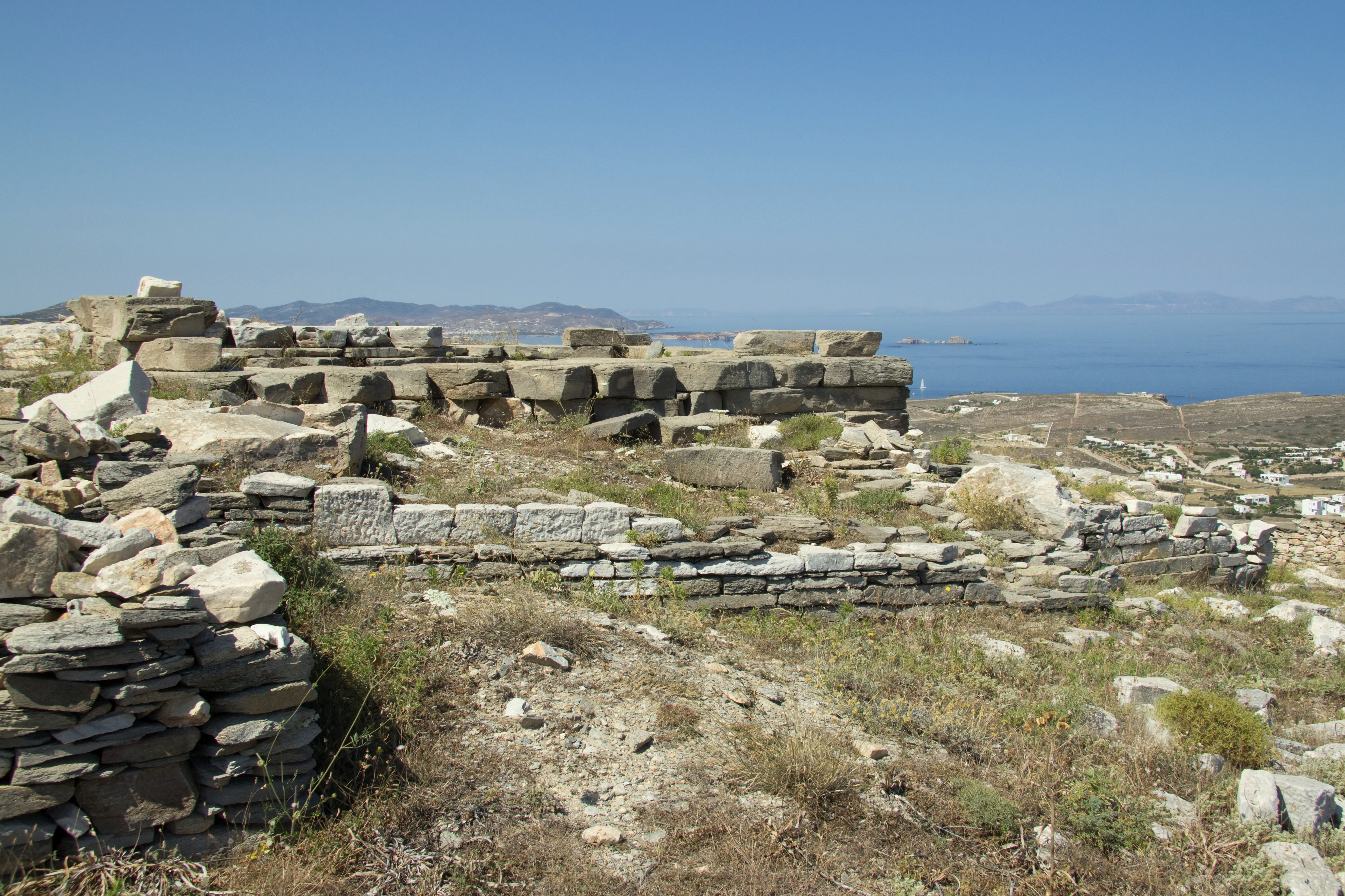 Delion on Paros. View to the south and southeast, the Paroika and the island Antiparos.